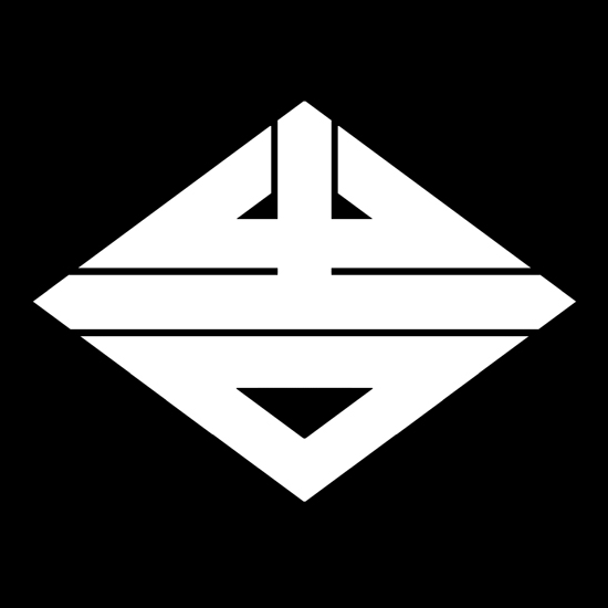 Japanese family crest "Kichi-bishi (hishi)" or "Kichi-no-ji Bishi", a kanji "吉" (kichi, happiness) modified to fit in a diamond shape